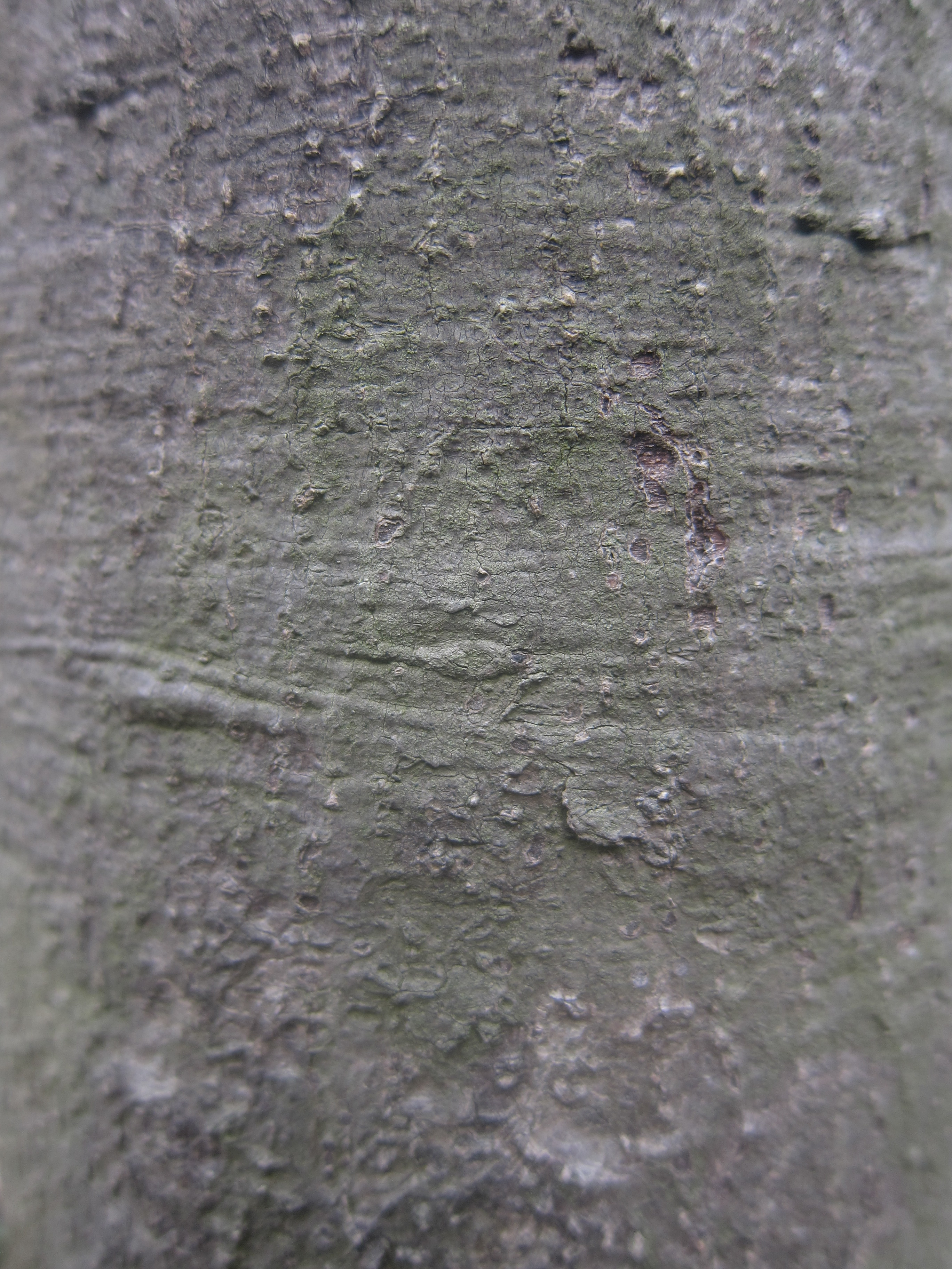 Bark of young Dracontomelon duperreanum in Hong Kong